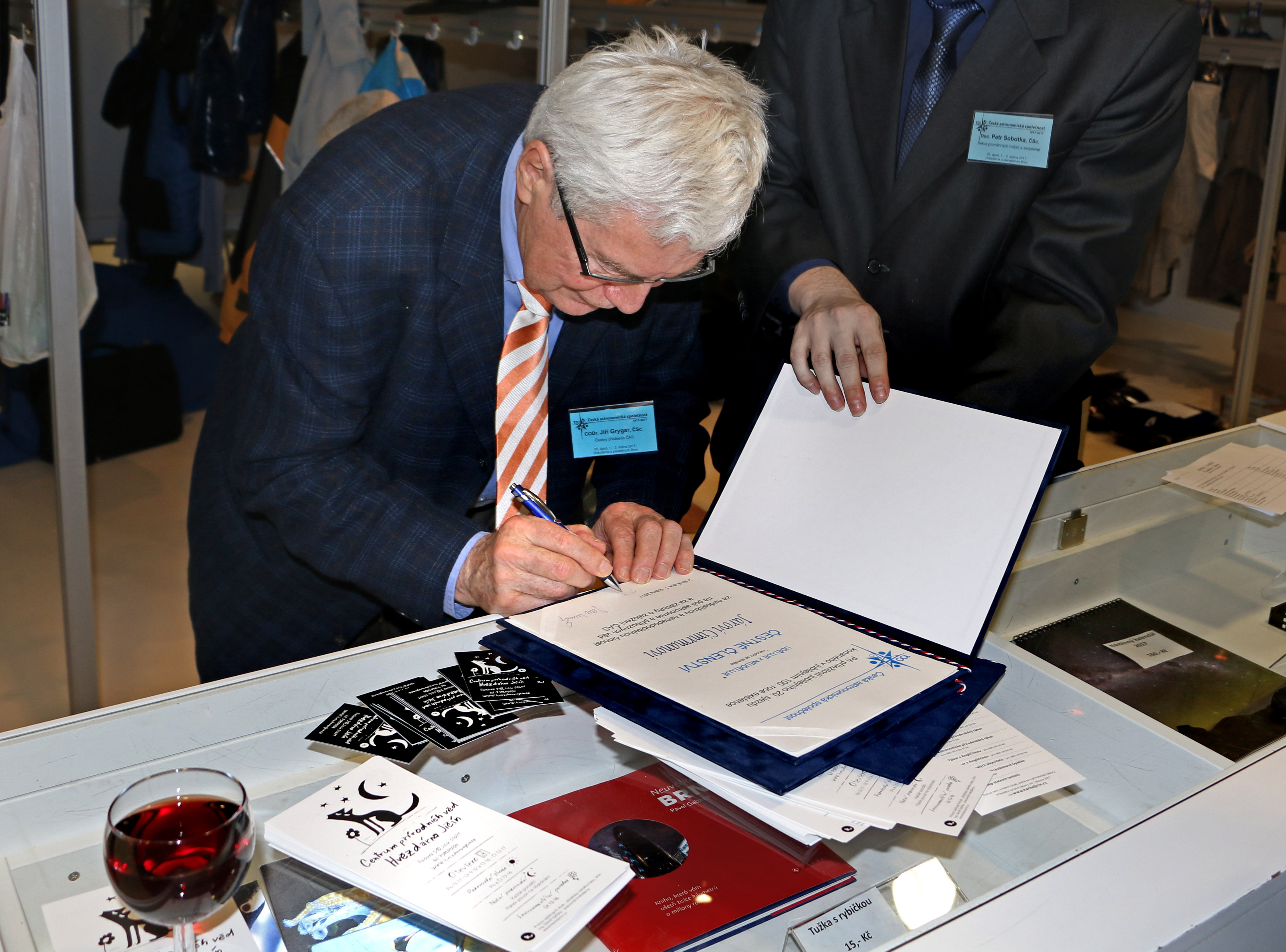 Czech astronomer Jiří Grygar at Czech Astronomical Society congress 2017.